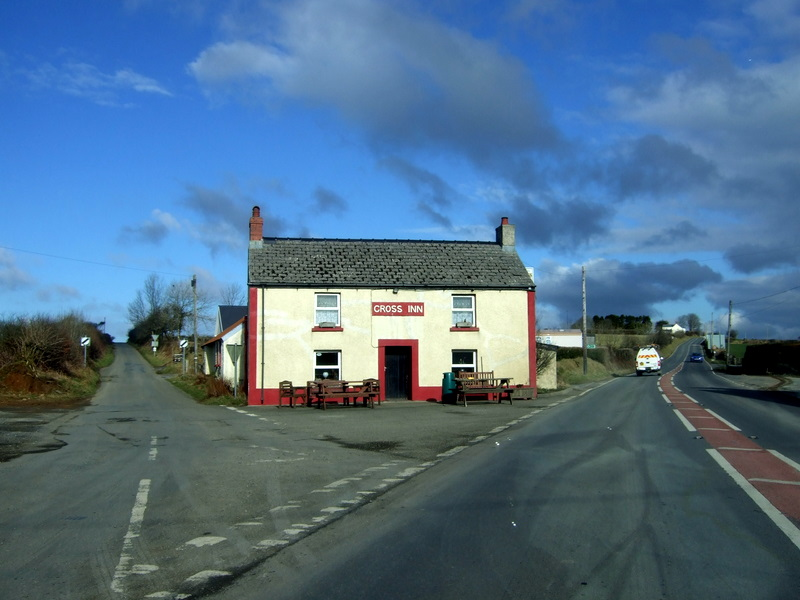 Glandy Cross and the Cross Inn The pub faces the road intersection that the village is named for: on the right is the A478 old turnpike route heading towards Cardigan, left the minor road to Mynachclogddu. Roads also run west and east at this point. Although this is on the surface this looks a somewhat dull, flat landscape it has important prehistoric and historic roots: there is a multiplicity of Neolithic and Bronze Age remains in the area still visible, and in the Middle Ages the land (much of it owned by the Cistercians at Whitland Abbey) was held under Welsh systems of tenure and farmed communally. "Sixteenth-century leases make it clear that tenants were practising common pasturage and the survival of arian y mynydd or 'mountain silver', a payment for grazing rights, with a diversity of rents, in both cash, kind and service, suggests that they correspond with earlier villein obligations, when most of the tenants were also bound to do boon work for the monastery." Some of the moorland here remained unenclosed until the C19. See Archaeology in Wales